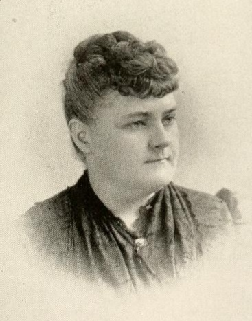 Photographic portrait of American physician Harriet B. Johns (1856–1943). From American Women: Fifteen Hundred Biographies with Over 1,400 Portraits, Frances E. Willard and Mary A. Livermore, editors. Mast, Crowell & Kirkpatrick, 1897 (revised edition from 1893), vol. 2, p. 425